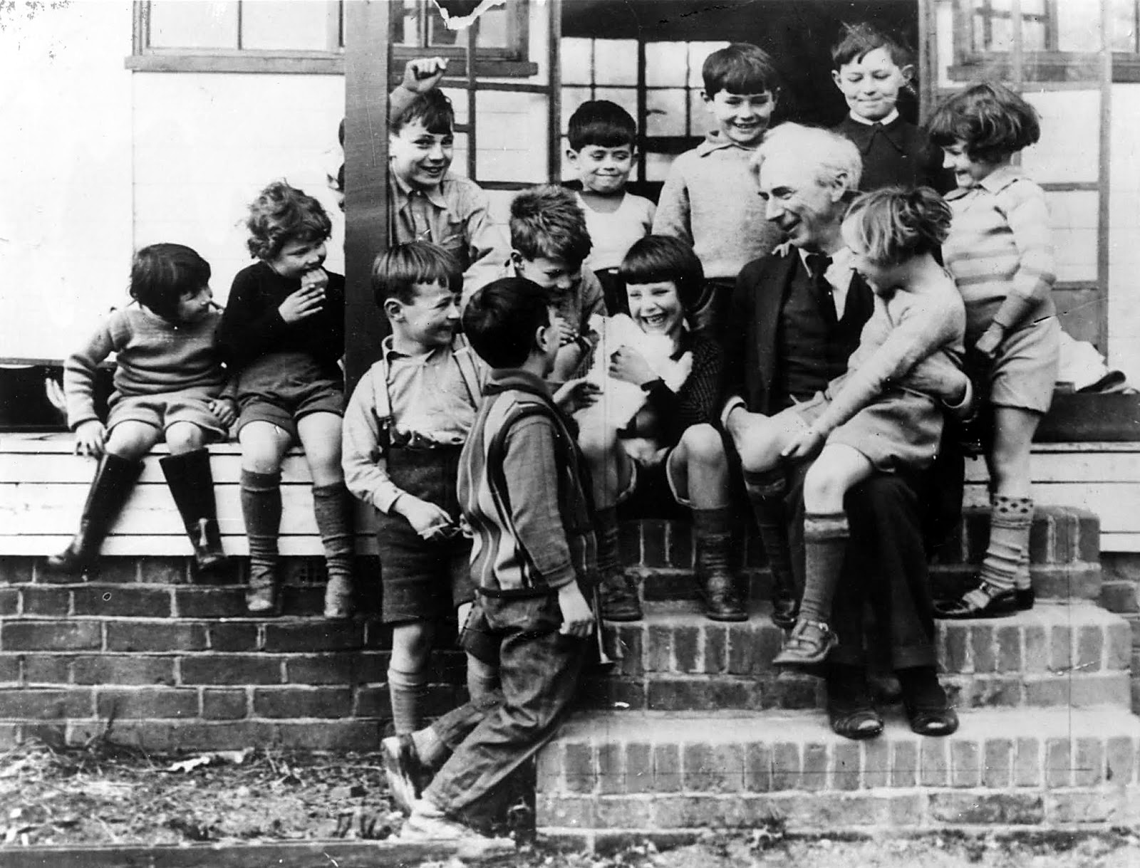 Russell on the porch at his experimental (Beacon Hill) School.